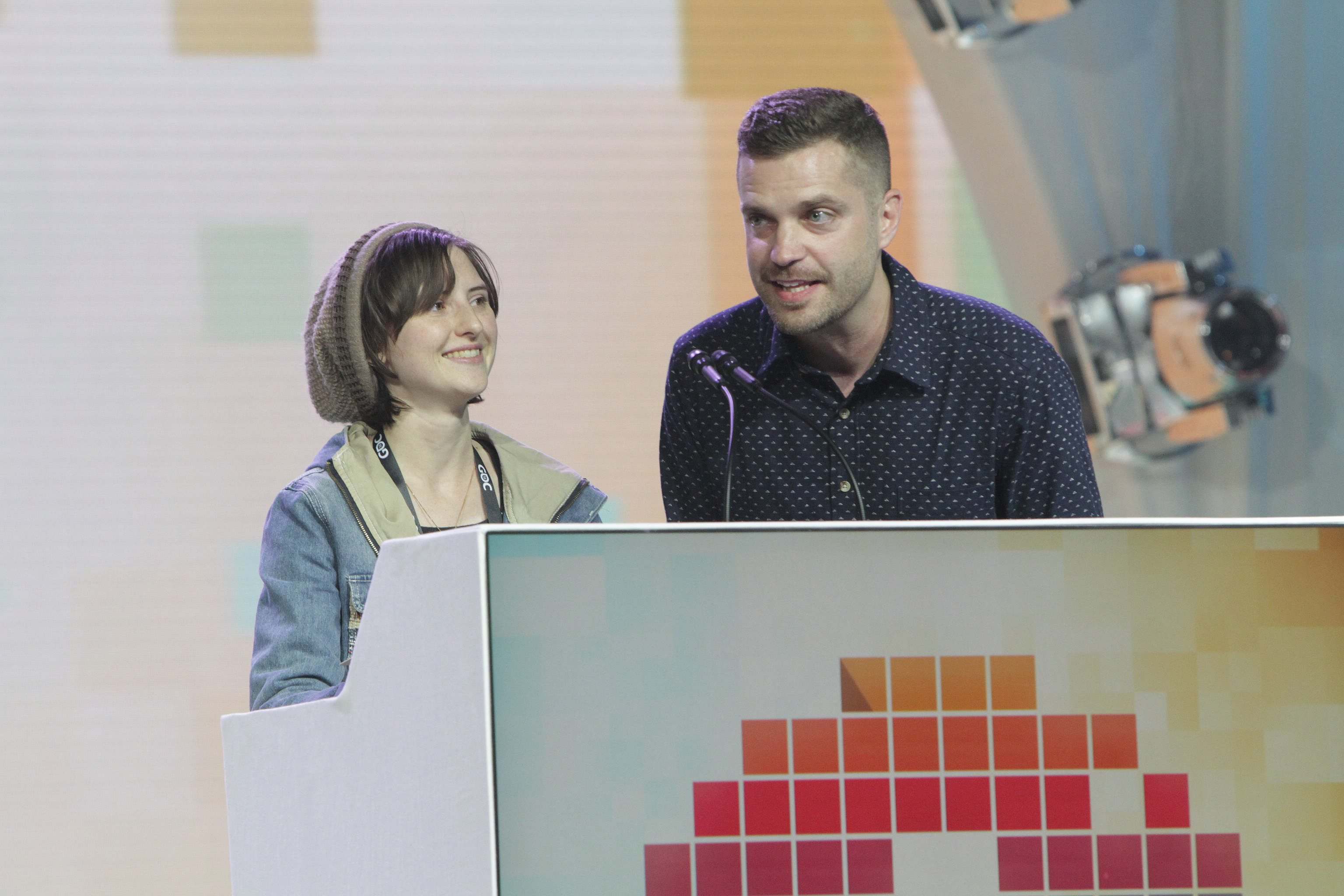 16-19_02_16-01-7D1_1018 (Added description: members of Night School Studio accept an award for the game Oxenfree